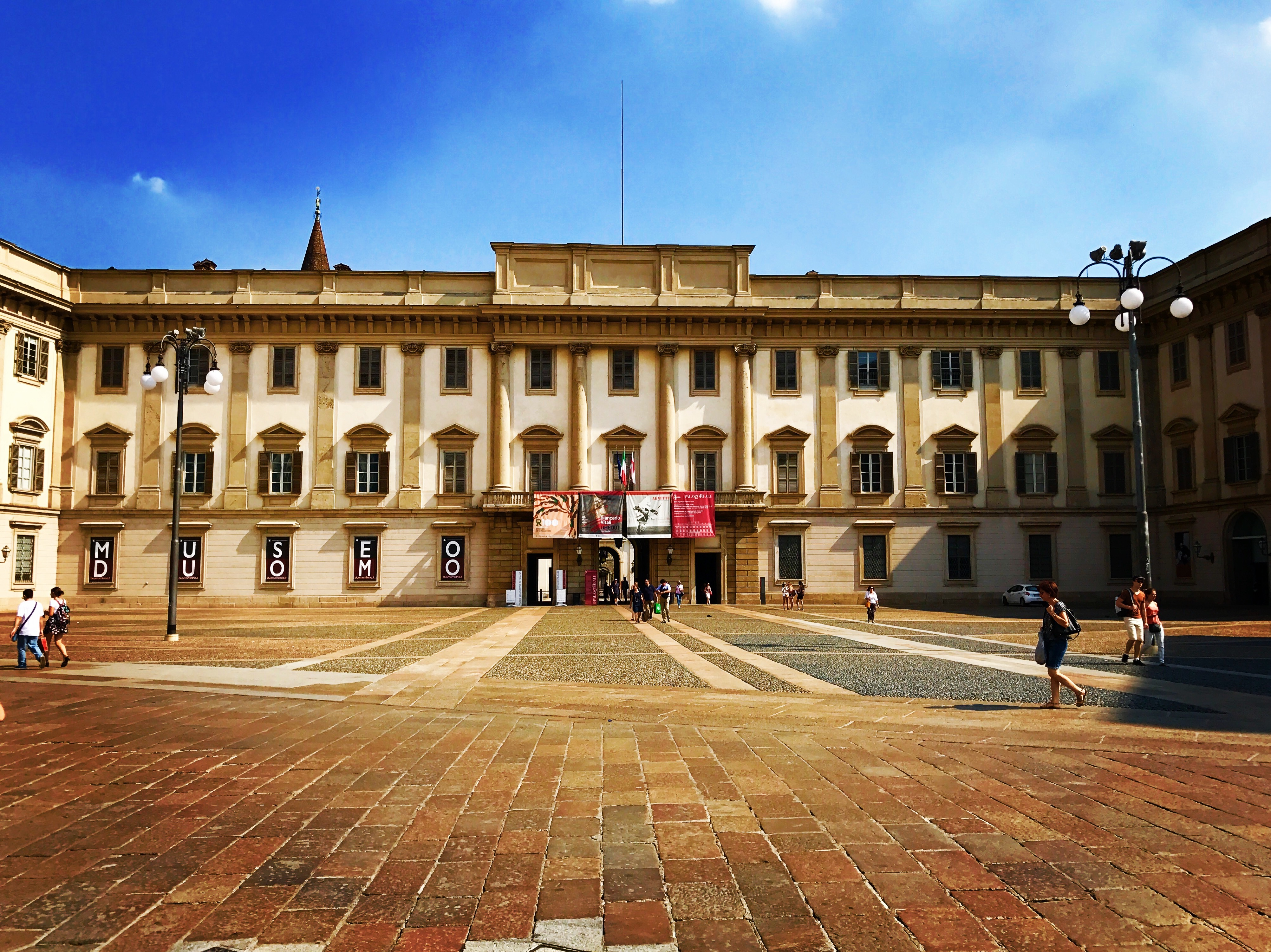 This is a photo of a monument which is part of cultural heritage of Italy.